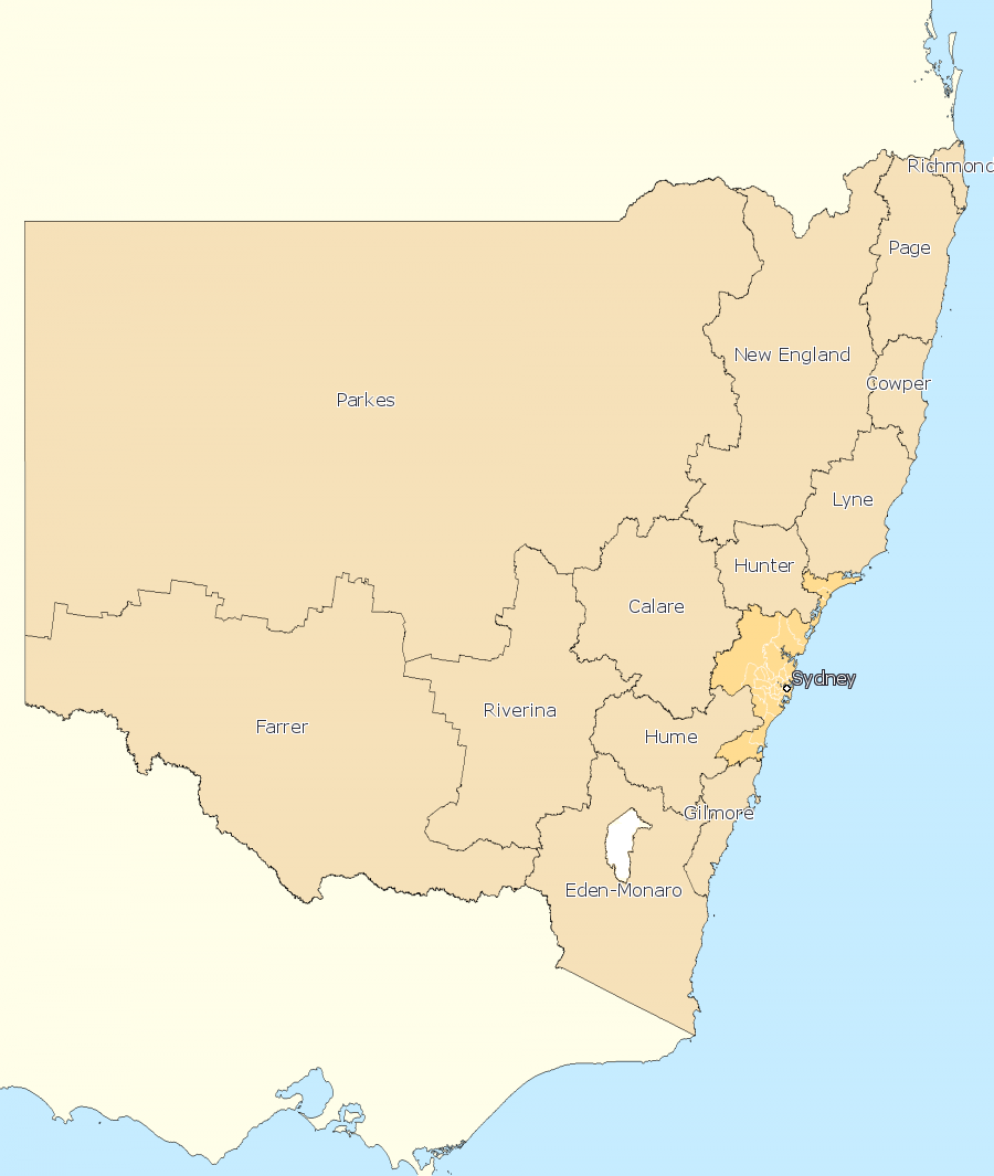 Incorporates or developed using Administrative Boundaries ©PSMA Australia Limited licensed by the Commonwealth of Australia under Creative Commons Attribution 4.0 International licence (CC BY 4.0). Derived from State and Territory Boundaries from the Australian Bureau of Statistics under Creative Commons Attribution 2.5 Australia license (CC BY 2.5 AU)